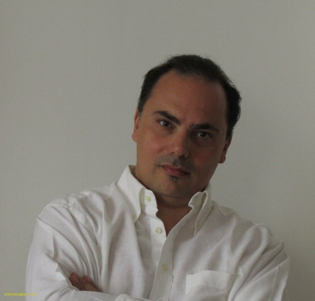 Antonio Pagliaro (Palermo, 1968) is an Italian writer.